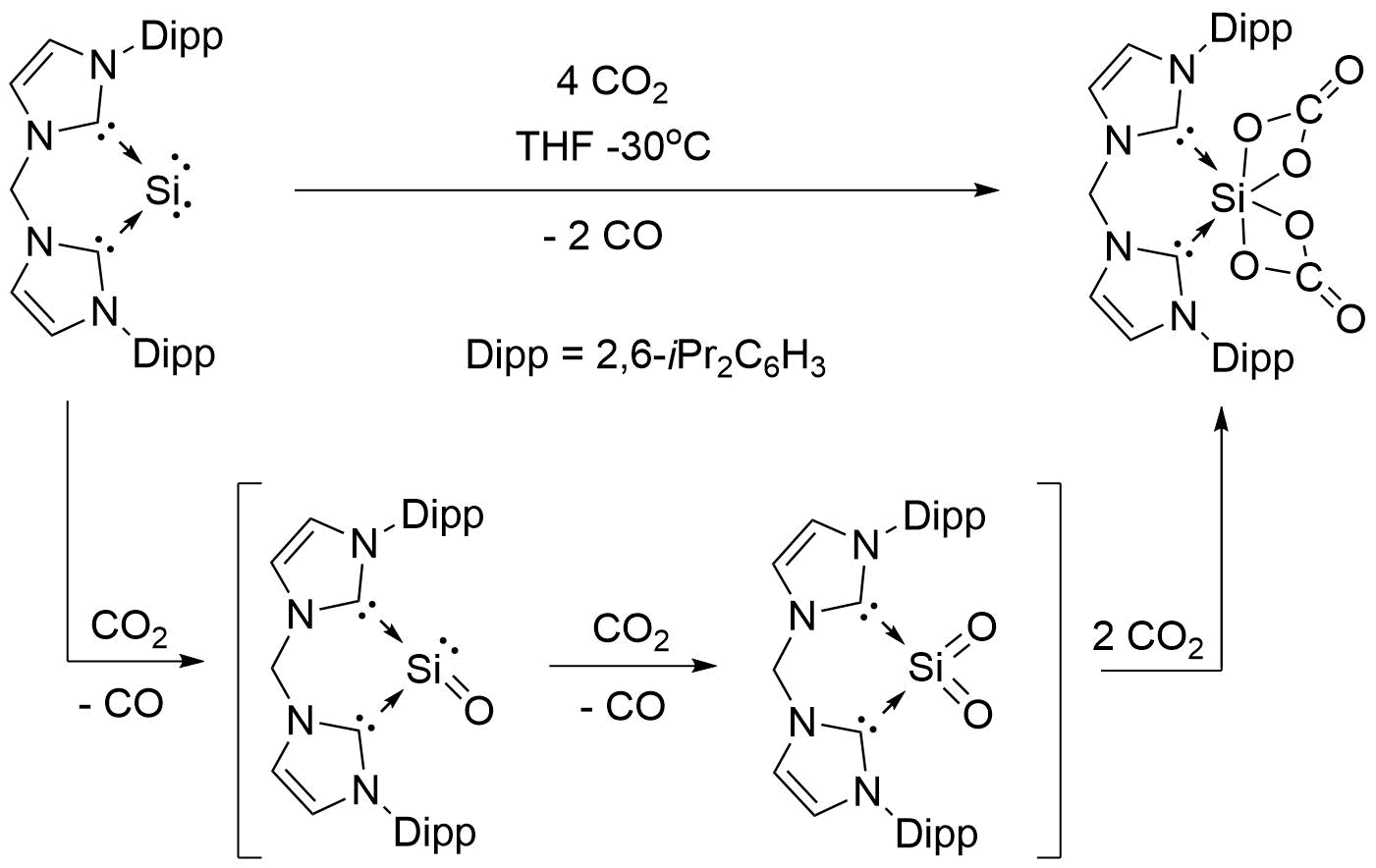 Schematic of CO2 activation via bis-NHC-stabilized silylone, as described in Figure 2 of Burchert et al (